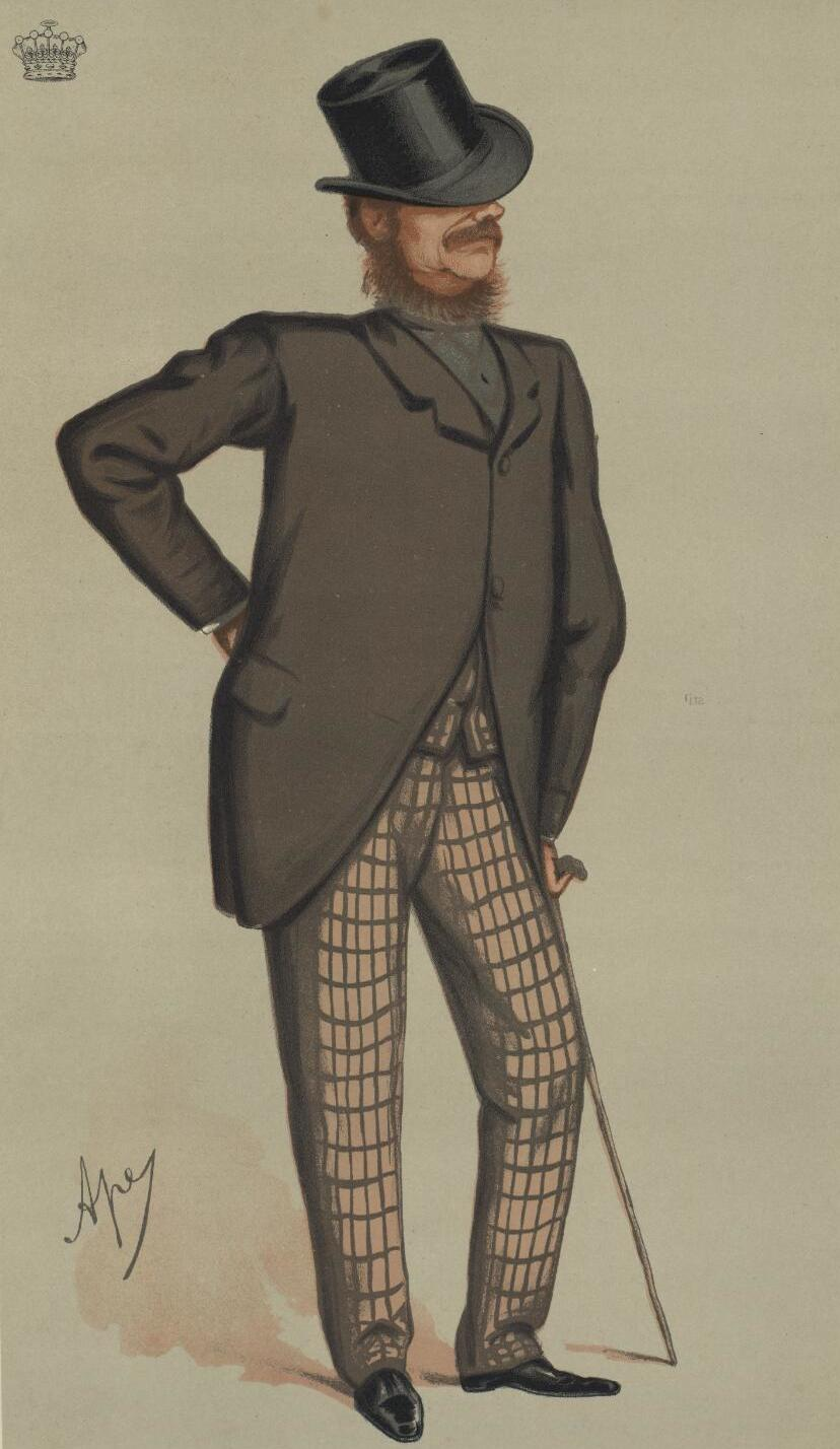 A portrait from the Welsh Portrait Collection at the National Library of Wales. Depicted person: William Nevill, 1st Marquess of Abergavenny – British peer